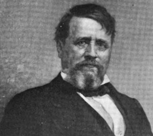 Richard D. Hubbard (Connecticut Governor)